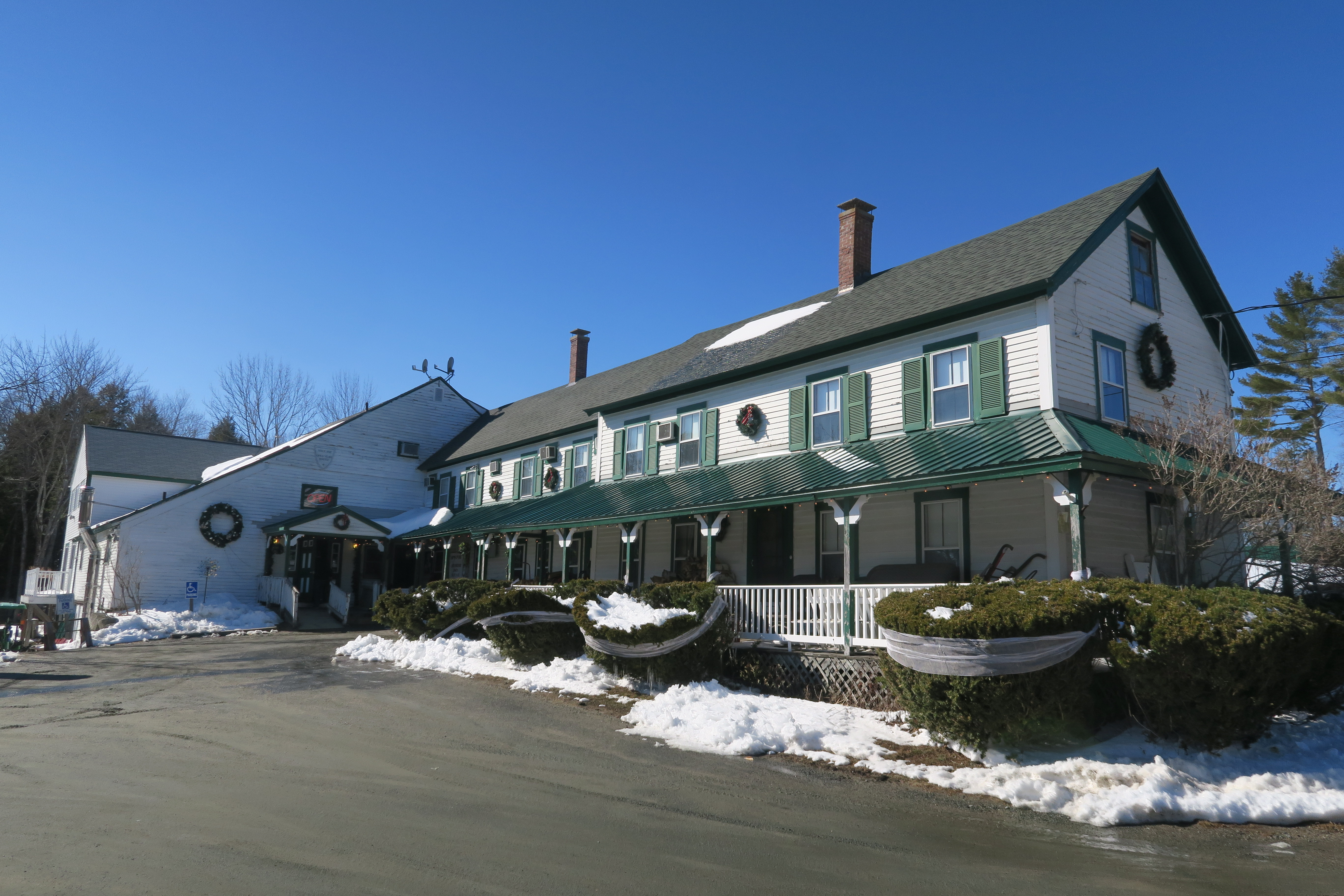 Bridgewater Inn, Bridgewater New Hampshire